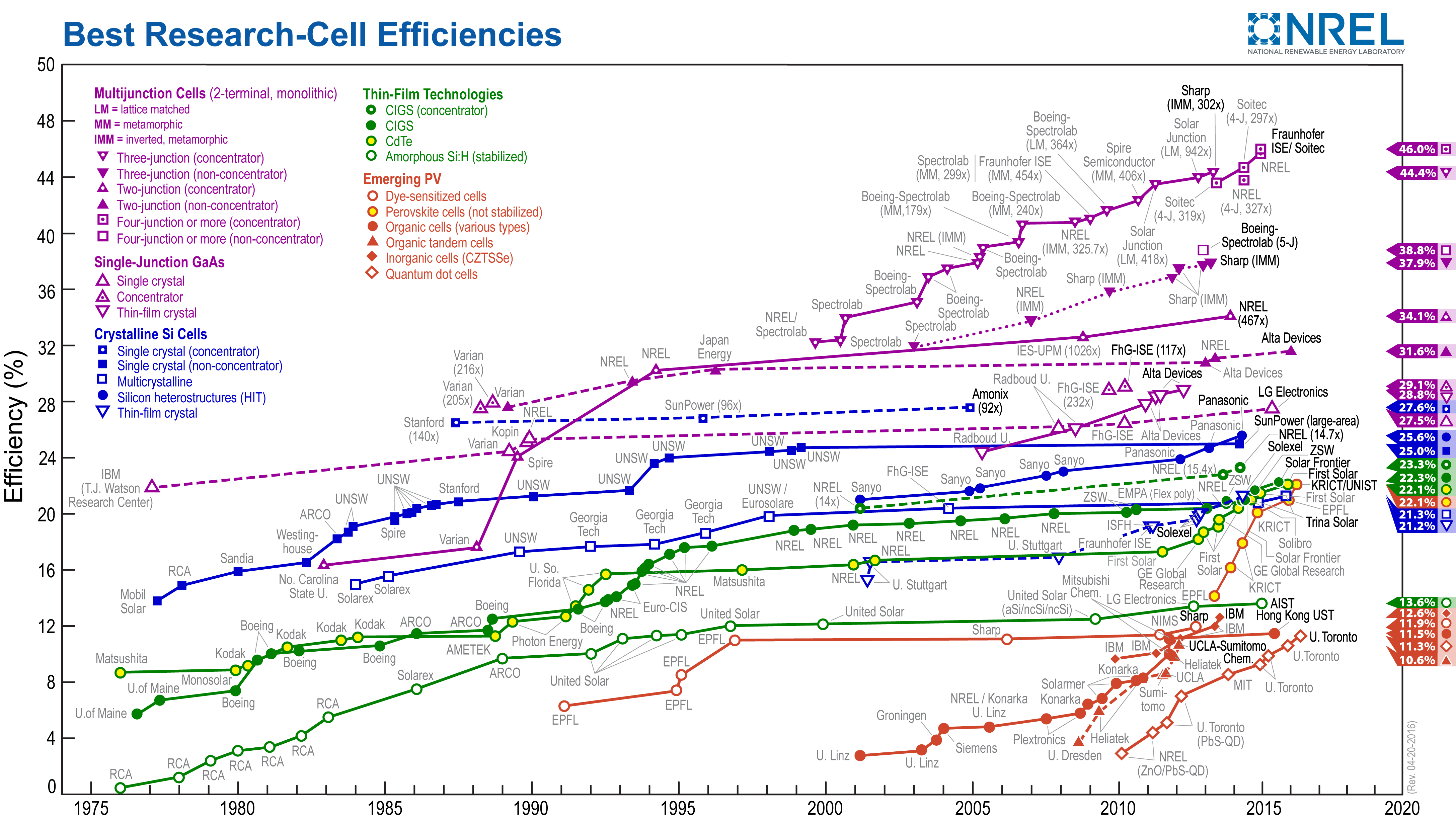 Conversion efficiencies of best research solar cells worldwide from 1976 through 2016 for various photovoltaic technologies. Efficiencies determined by certified agencies/laboratories.